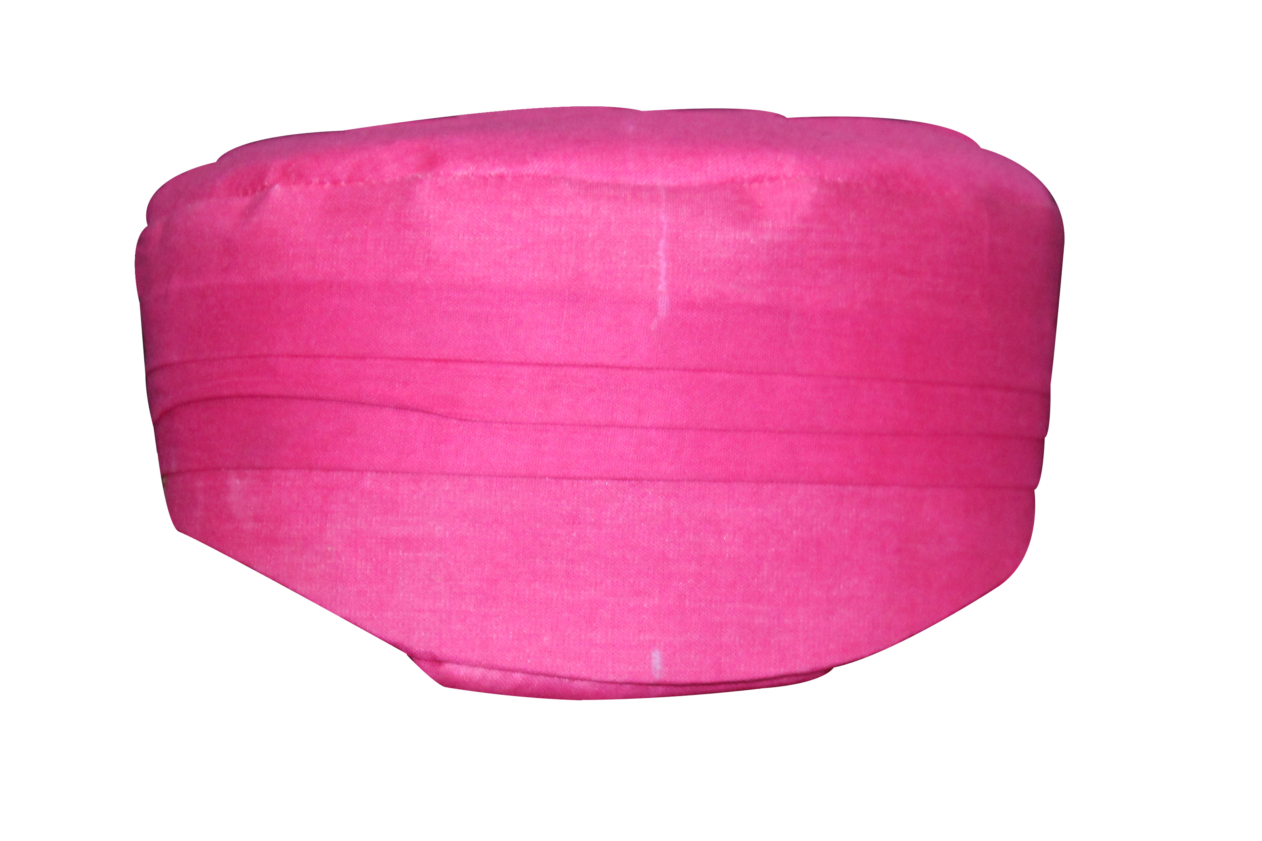 Cultural Identity of Mithila